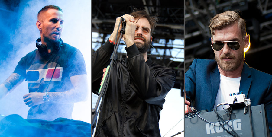 A Miike Snow collage, showing all three members.